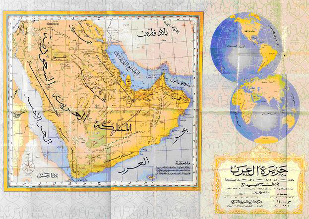 Map of the Arabian Peninsula, 1952, showing, in Arabic, the name "Persian Gulf" for the body of water to the north-east